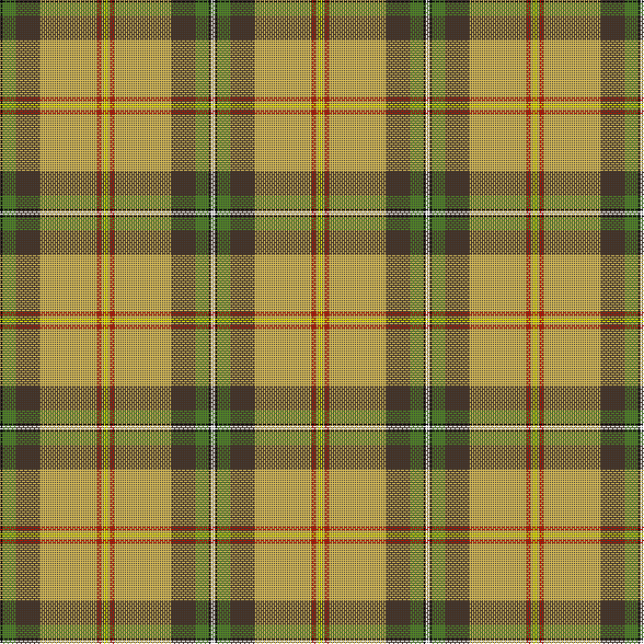 The official tartan of the Canadian province of Saskatchewan, created in 1961. Thread count: black 1 green 6 brown 11 gold 26 red 2 yellow 1 red 2 gold 26 brown 11 green 6 black 1 white 2